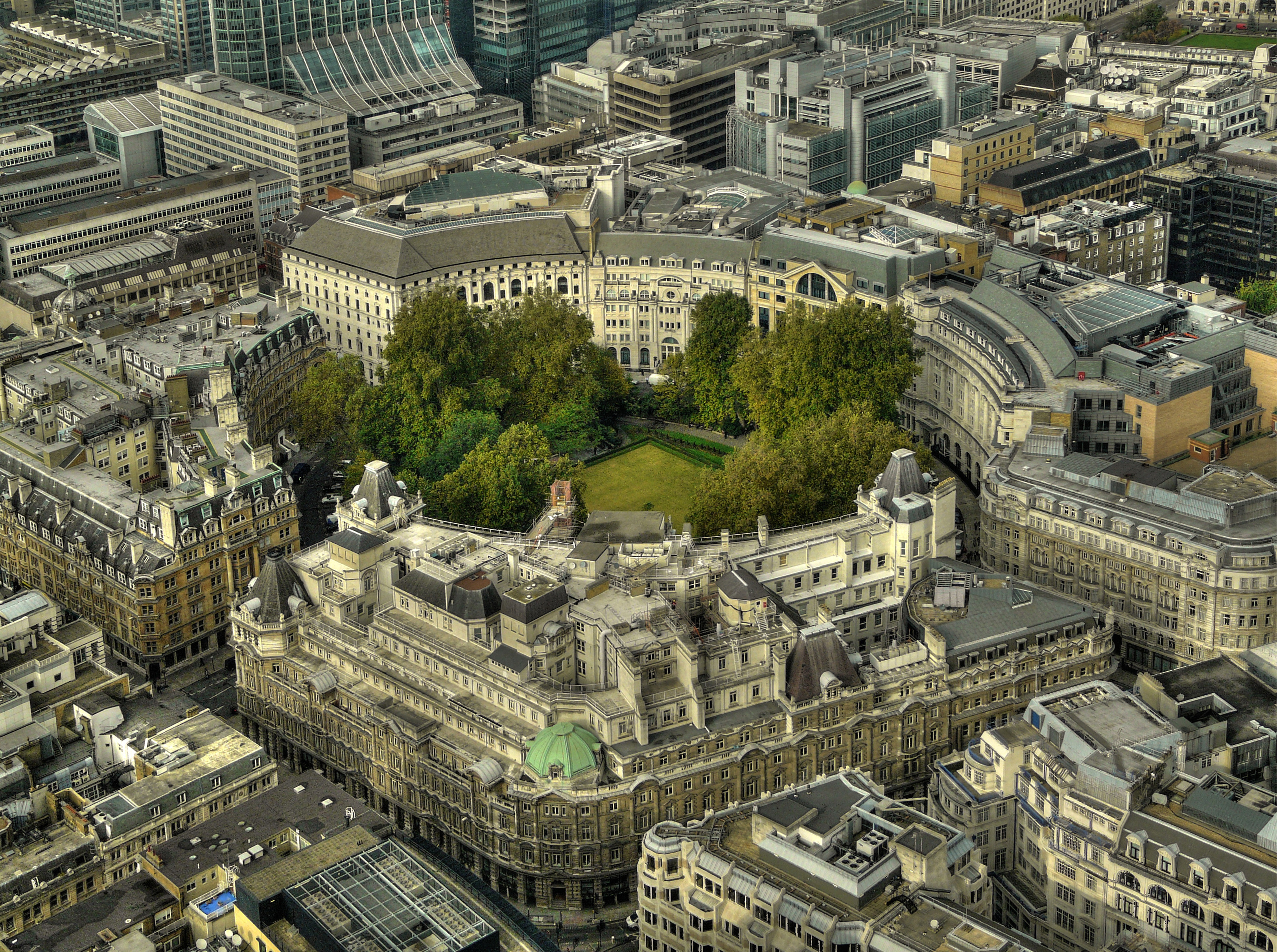 A view of Finsbury Circus from the top of Tower 42. Mild HDR processing has been used.